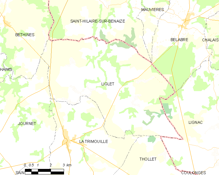 Map of French municipality Liglet